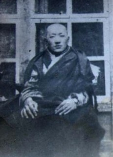 The Third Gemang, Garwang Lerab Lingpa b.1930 - d.1959